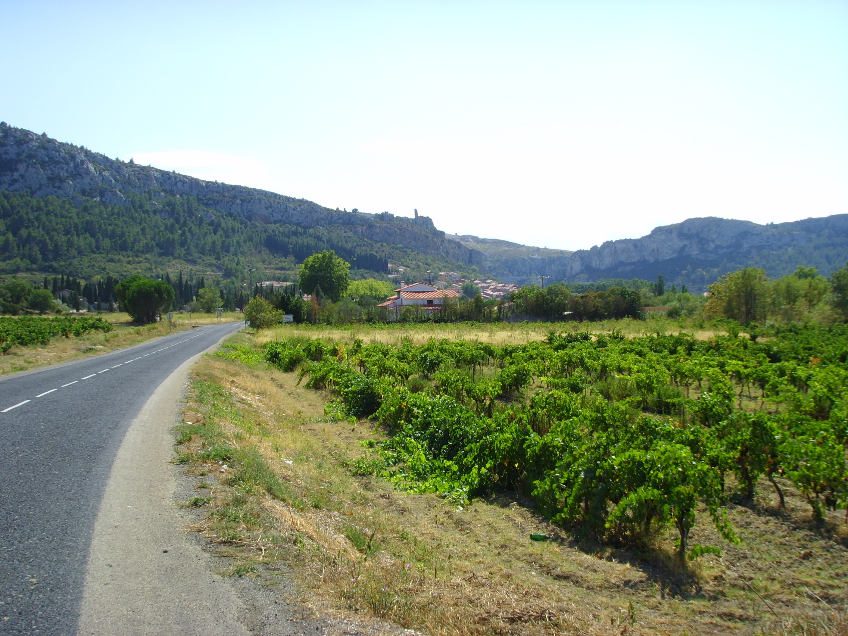 Tautavel (Perpignan-region), France: view from Vingrau to Tautavel